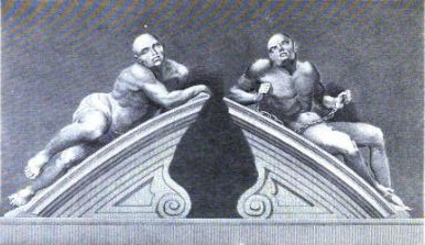 Engraving by C. Warren first appearing in Hughson's London of two figures carved by Gabriel Caius Cibber c. 1676. The figures respresented melancholy (on the left) and raving madness or mania (on the right). They adorned the entrance portal to the new Bethlem Royal Hospital (Bedlam) which opened at a site in Moorfields, north London in 1676.